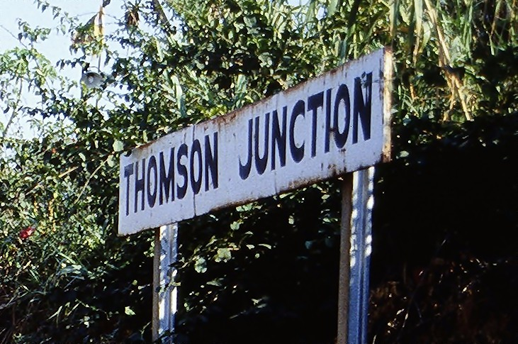 Signboard of Thomson Junction, Zimbabwe. The Station is named after A R Thomson Esq., General Manager of Wankie Colliery for many years.